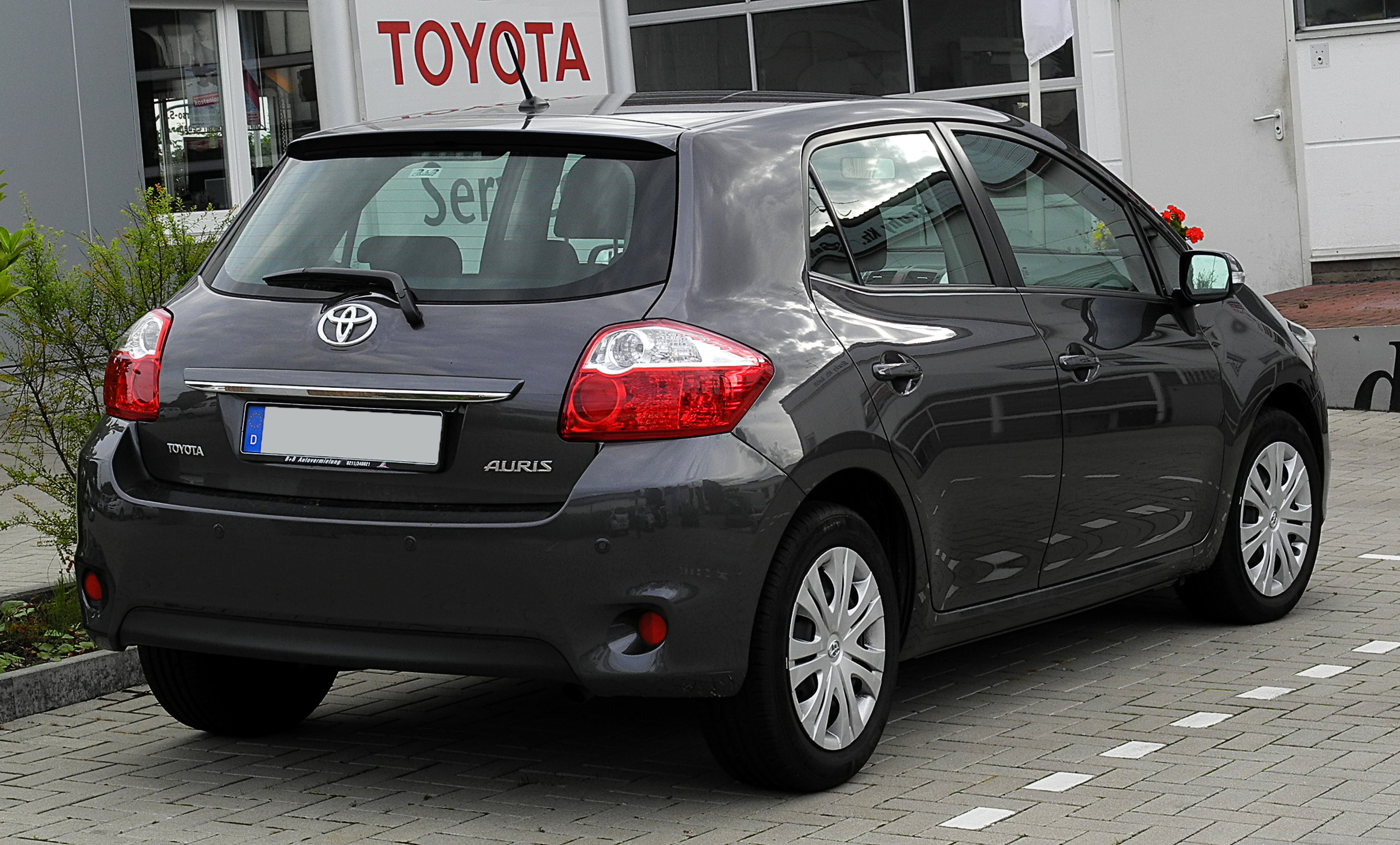 Toyota Auris (Facelift)